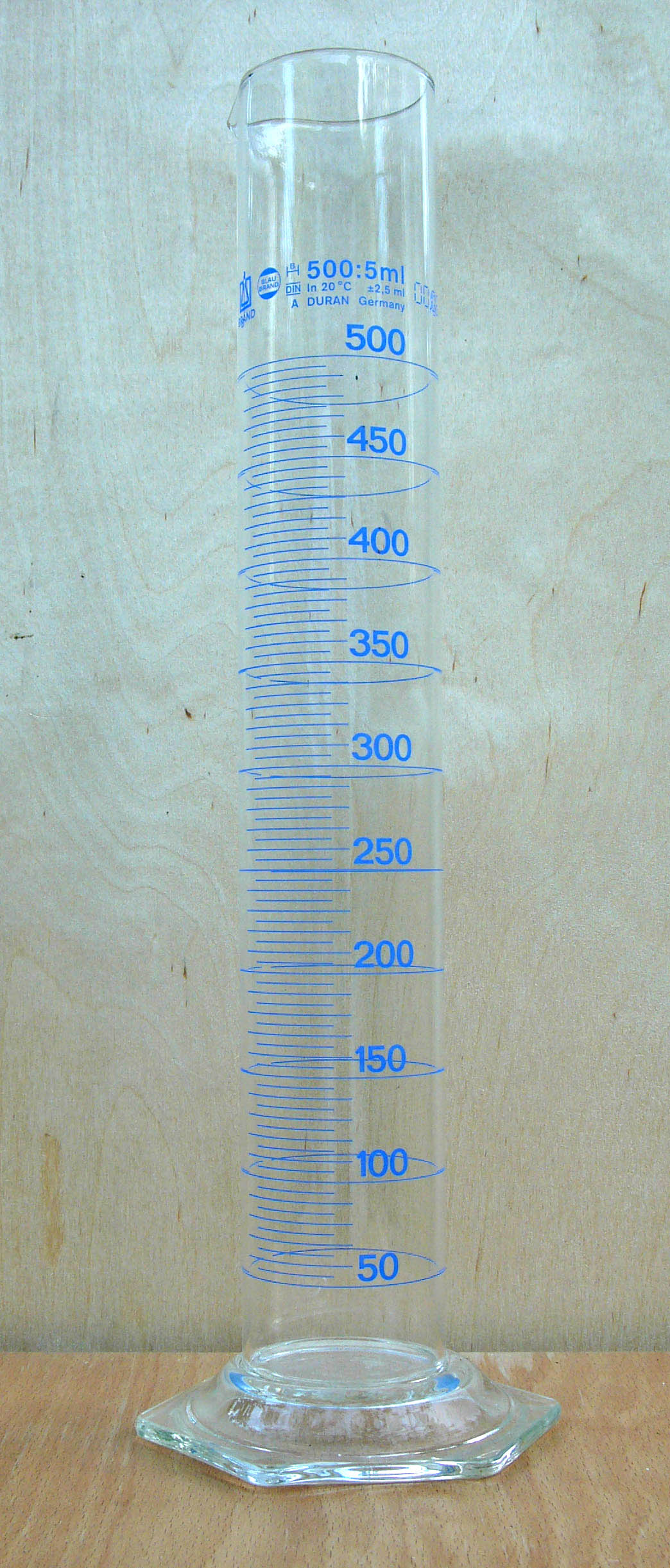 Measuring cylineder